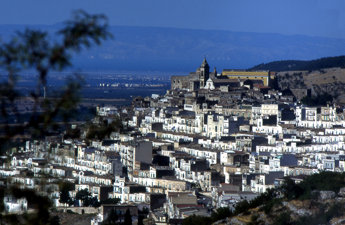 A view of Minervino Murge